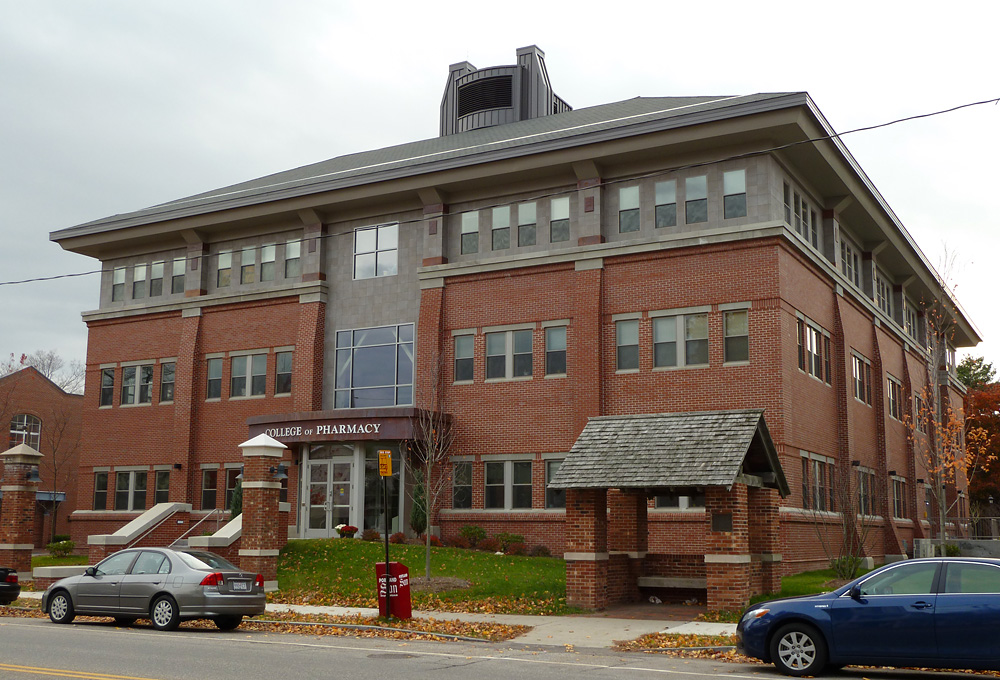 University of New England College of Pharmacy in Portland, Maine.